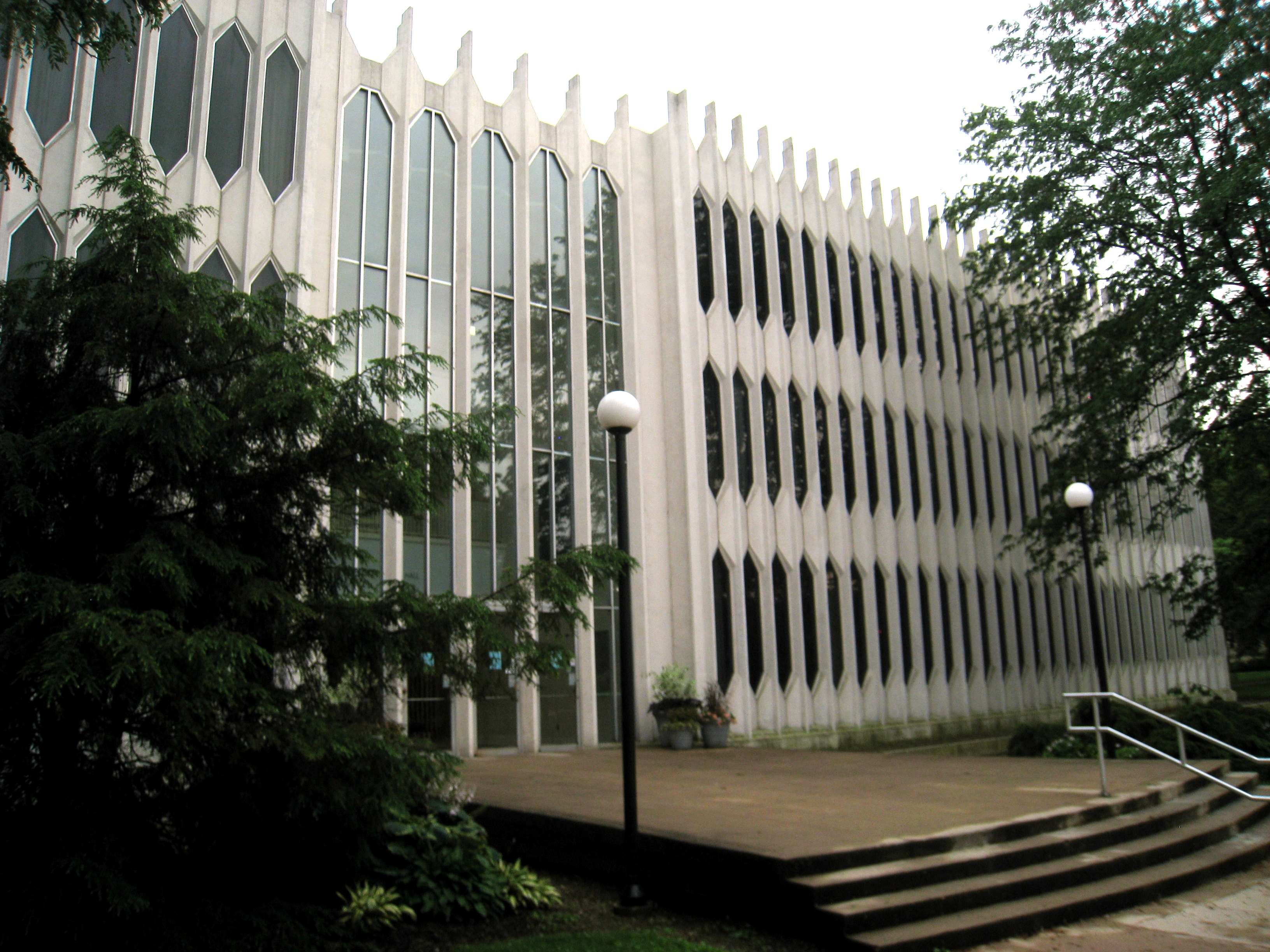 Entry - Oberlin Conservatory of Music, Oberlin College, Oberlin, Ohio, USA. Architect Minoru Yamasaki.